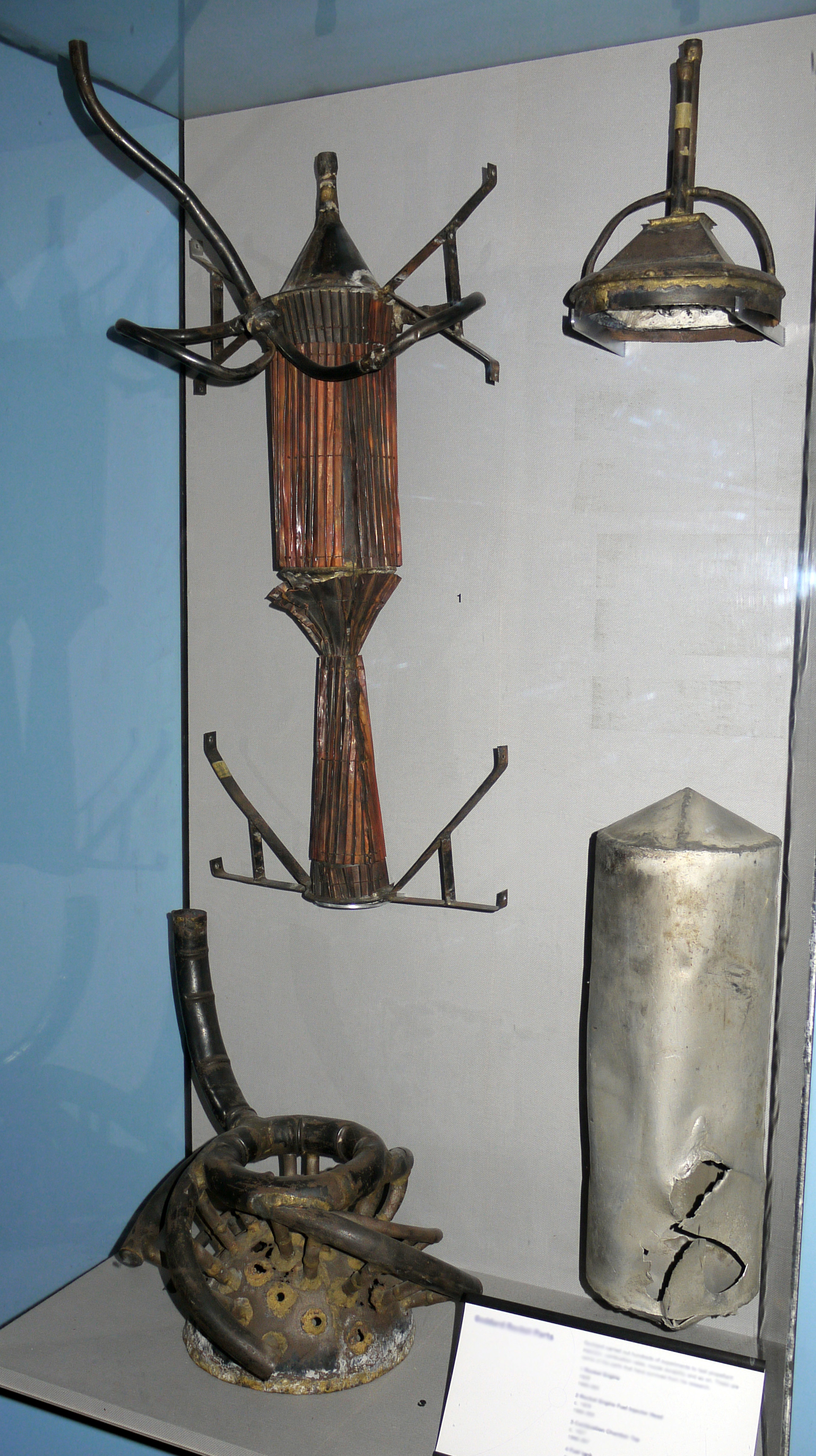 Photo of parts of some of Robert H. Goddard's rockets